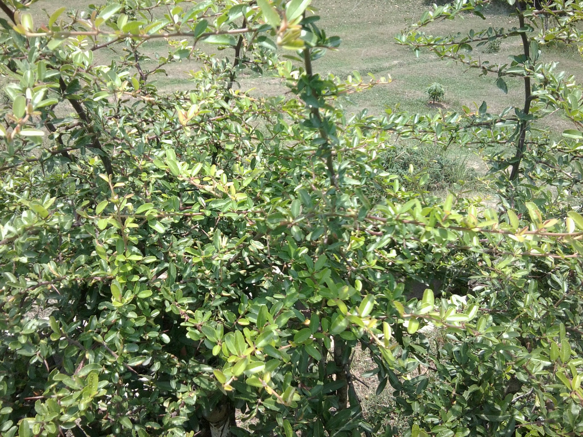 A bushy plant